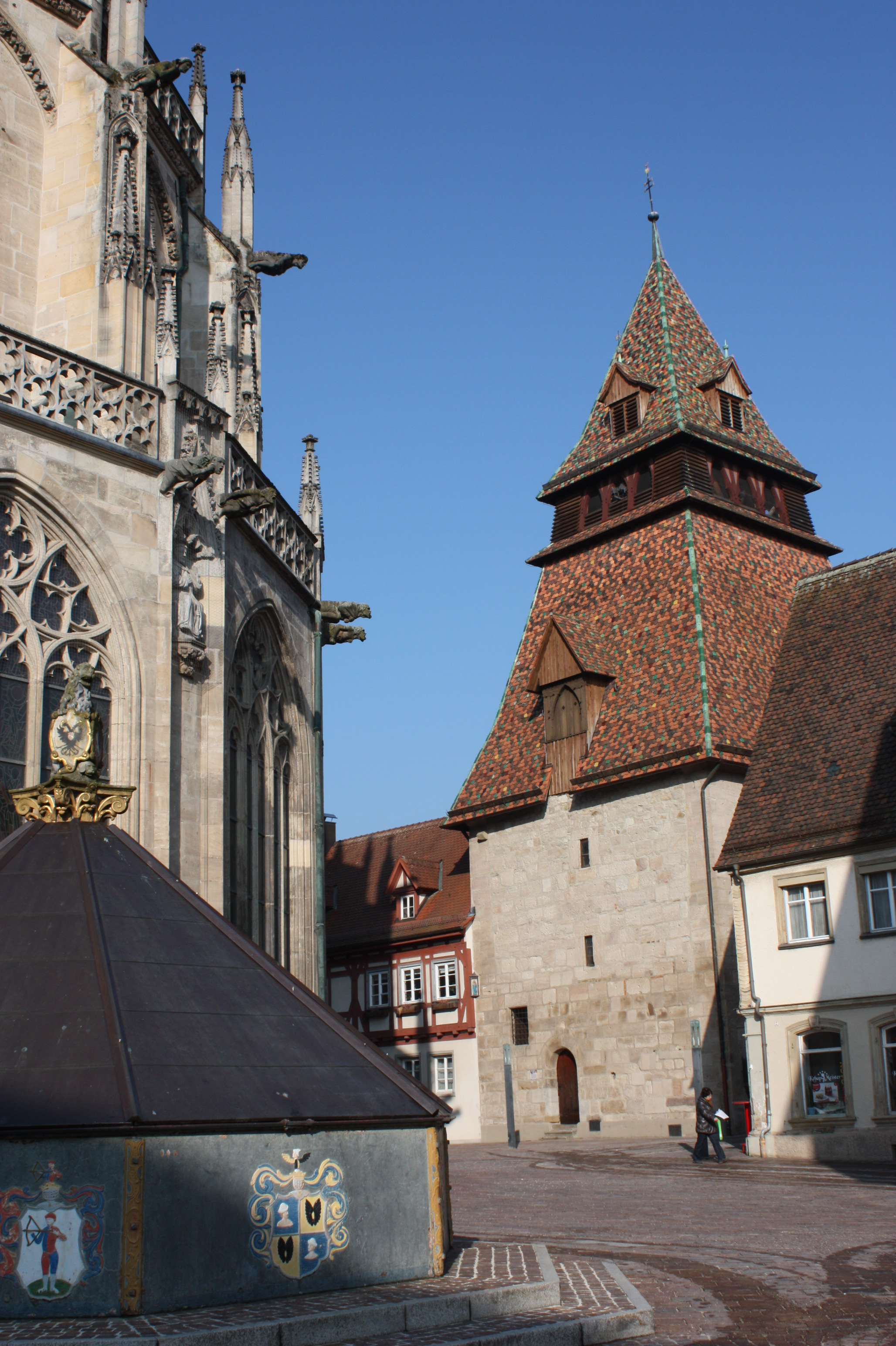 belfry of the minster in Schwaebisch Gmuend